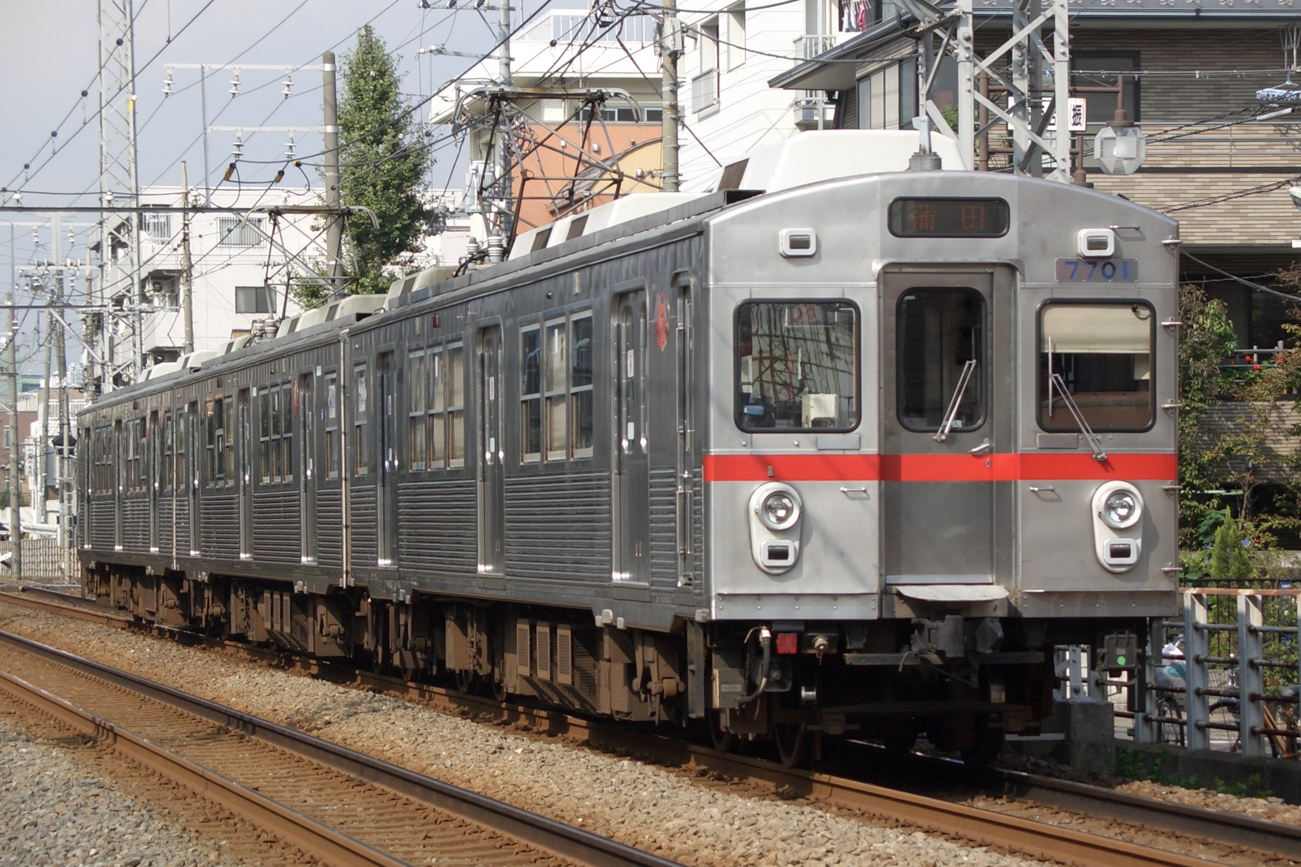 Tokyu 7700 series EMU set 7901 between Yukigaya-Ōtsuka Station and Ontakesan Station on the Tokyu Ikegami Line in Tokyo, Japan